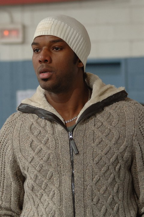 Pics of Player Max Boisclair